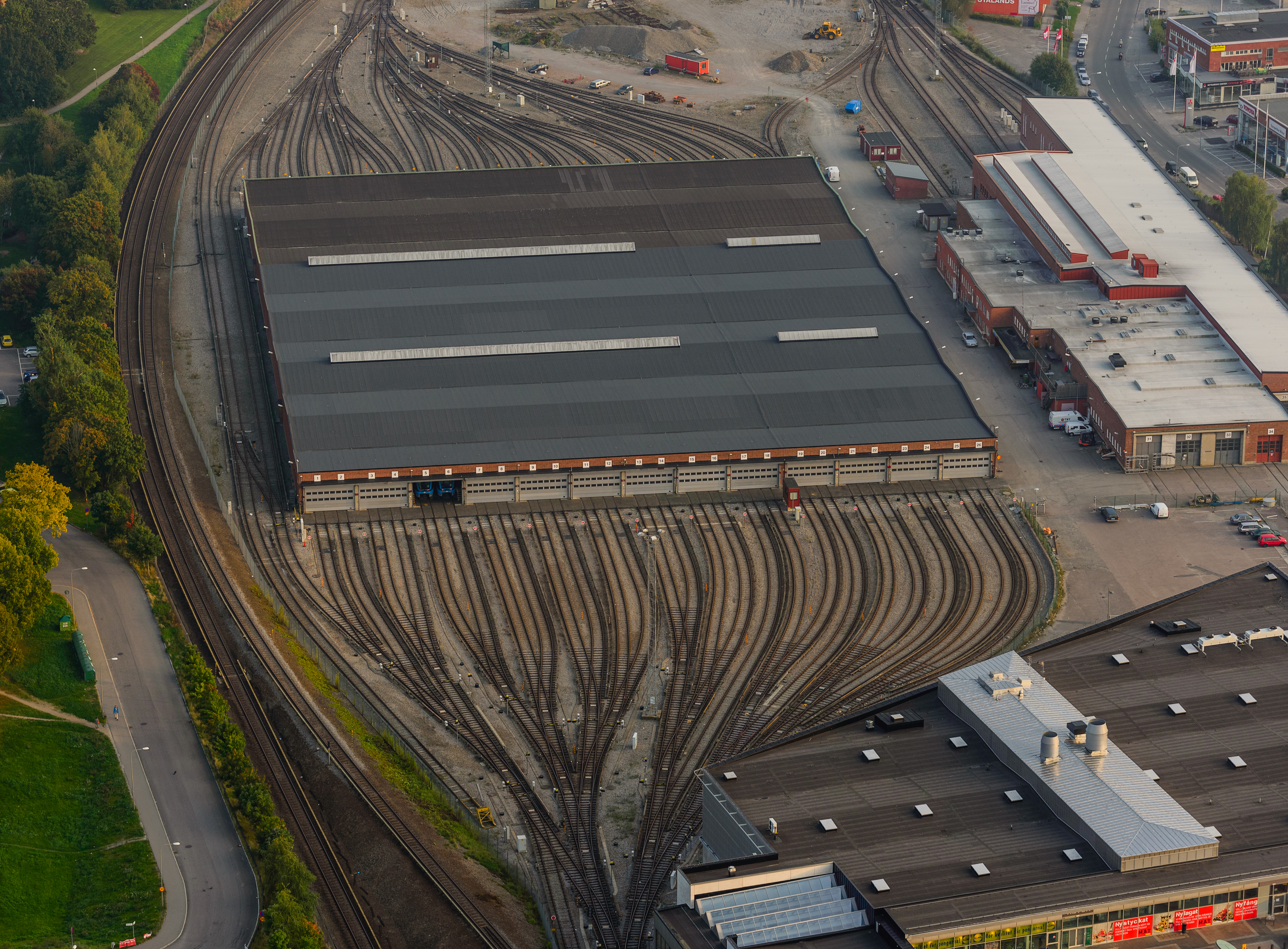 Vällingbydepån (the Vällingby Subway depot), Stockholm metro.